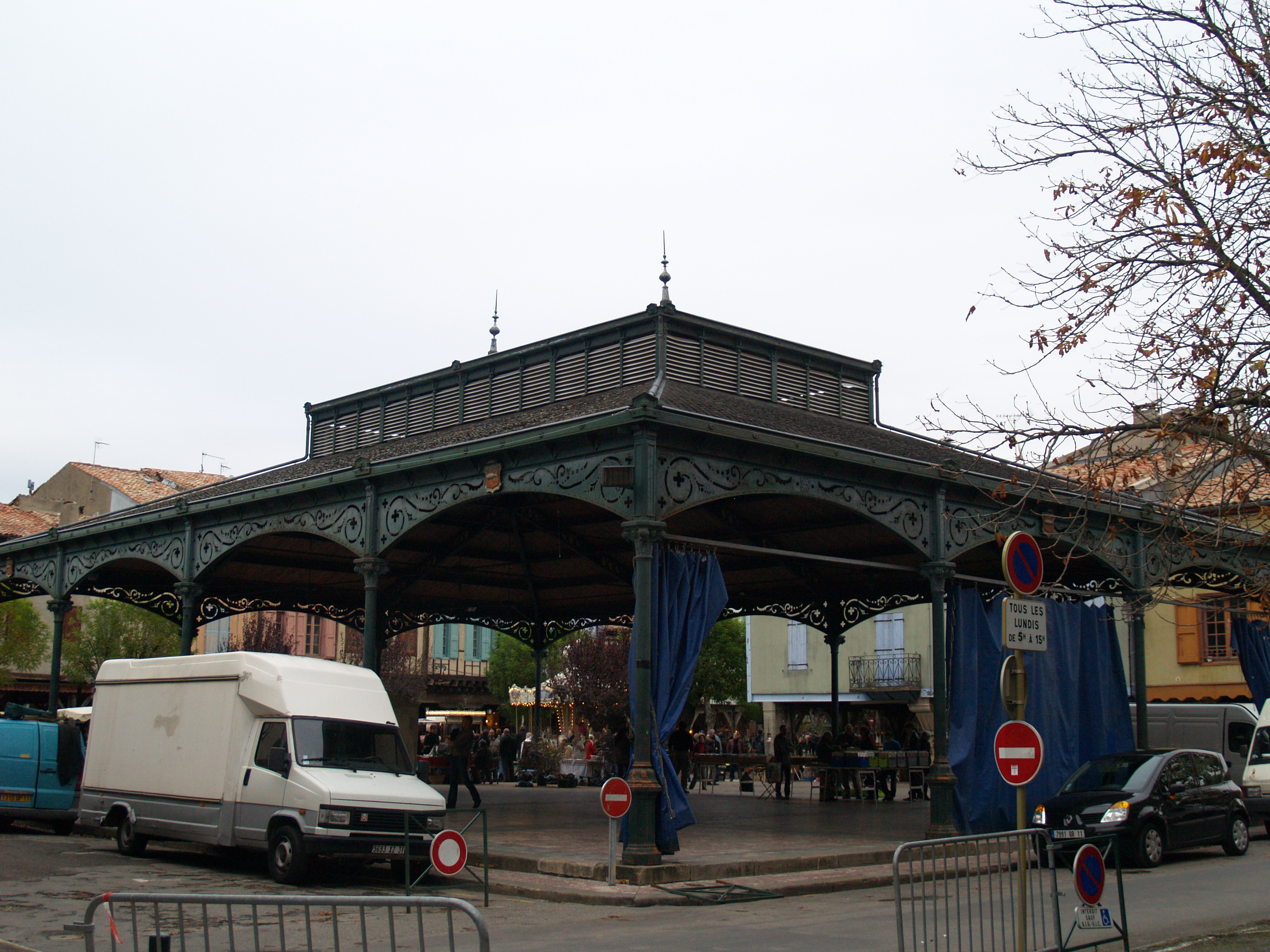 Market hall of Mirepoix (Ariège, France).